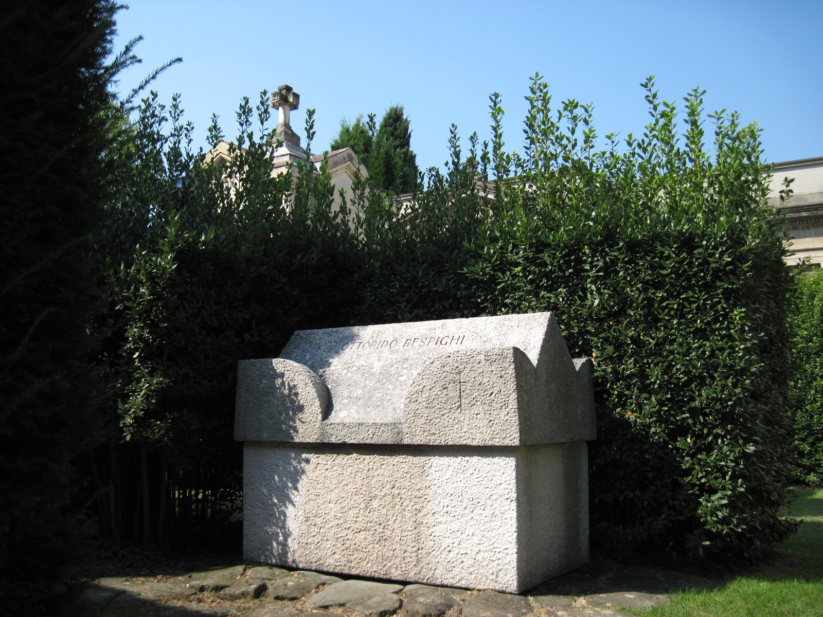 Ottorino Respighi tomb at Certosa di Bologna, Italy, taken on 2014-09-08 by myself